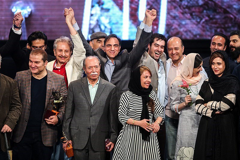 The closing ceremony of Shahrzad series in Tehran’s Milad Tower the series’ cast as well as the country’s artistic and political figures in attendance.